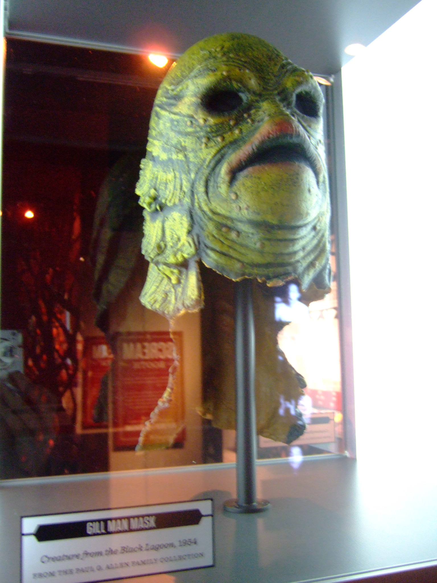 “Gill man mask Creature from the Black Lagoon, 1954 From the Paul G. Allen Family Collection.” Mask displayed at the Experience Music Project/Science Fiction Hall of Fame, Seattle.